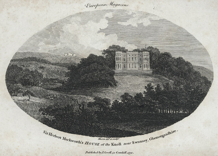 A view of a large house situated on top of a hill with acres of trees and land surrounding it.